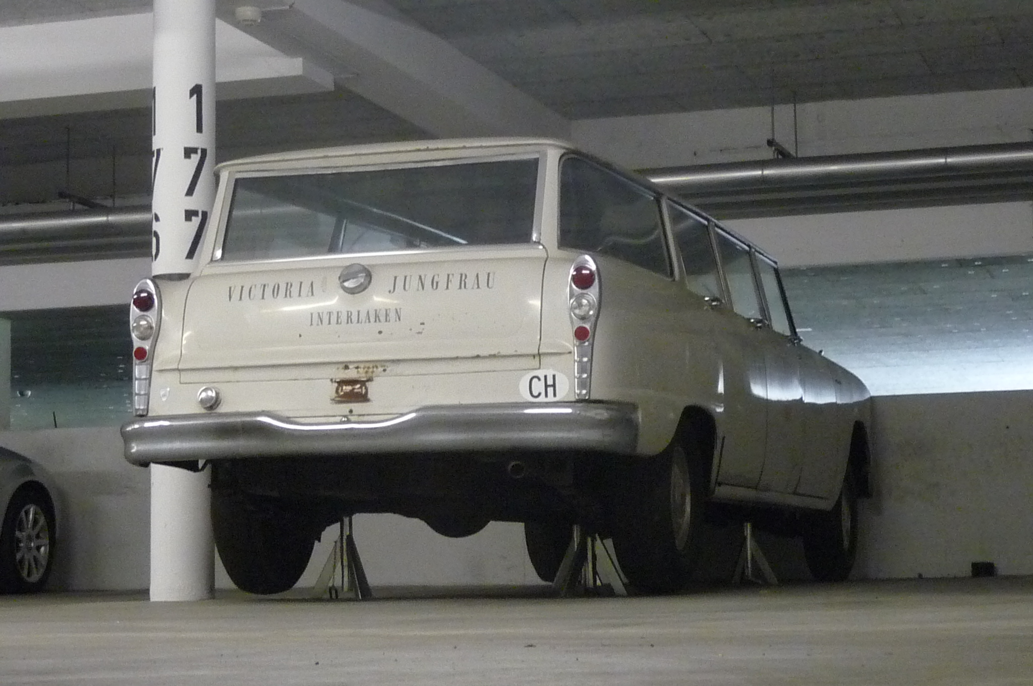 Found in the parking garage of the Victoria Hotel in Interlaken.